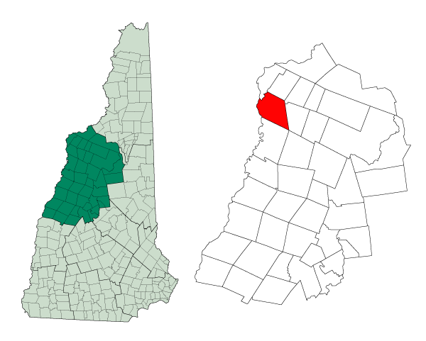 Map of a municipality in Belknap County, New Hampshire